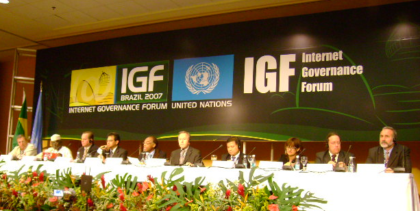 Picture taken at the IGF, Internet Governance Forum, held in Rio de Janeiro in 2007.